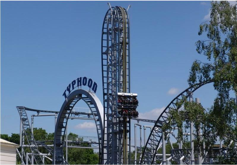 Typhoon attraction in Bobbejaanland.